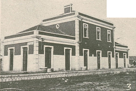 Portimão railway station under construction, in Portugal. This image was published on the Ilustração Portuguesa magazine No. 589, of the 5th June 1917, and scanned by the Hemeroteca Municipal de Lisboa.